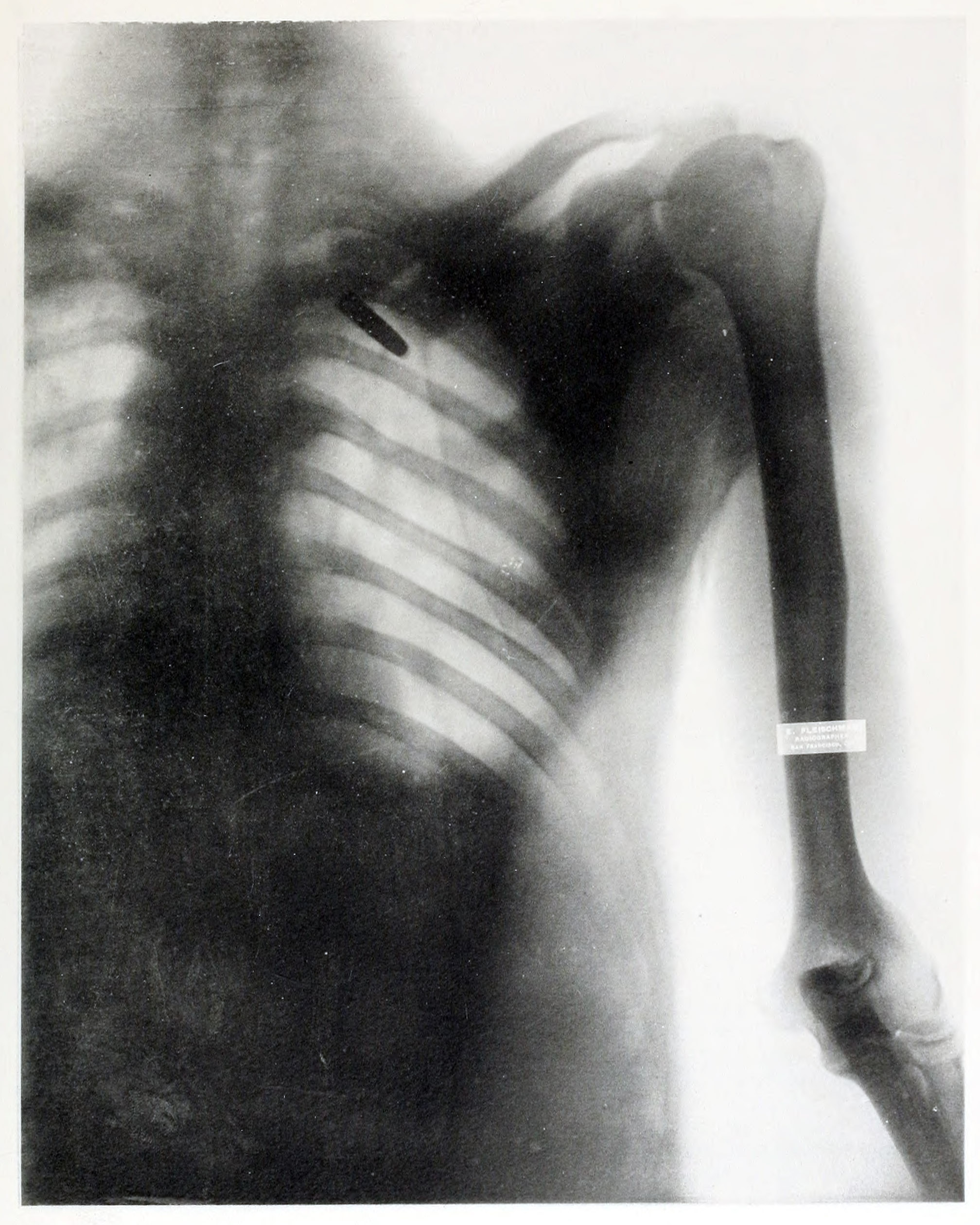 Posteroanterior chest radiograph of Private James Edwards, a soldier who had been wounded during the Spanish-American War. Shows a Mauser bullet, which passed through the spine, lying two inches to the right of the spine over the third intercostal space. Taken by Elizabeth Fleischman.